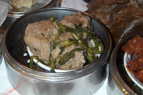 Dim sum meat ball meatball